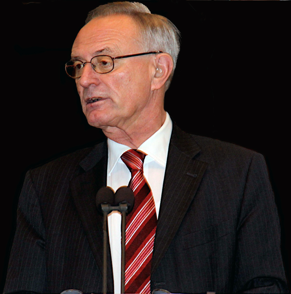 Klaus Hänsch, German politician and 22nd president of the European Parliament, speaking at the former German Bundestag in Bonn during the General Assembly of 31st International Session of the Model European Parliament.